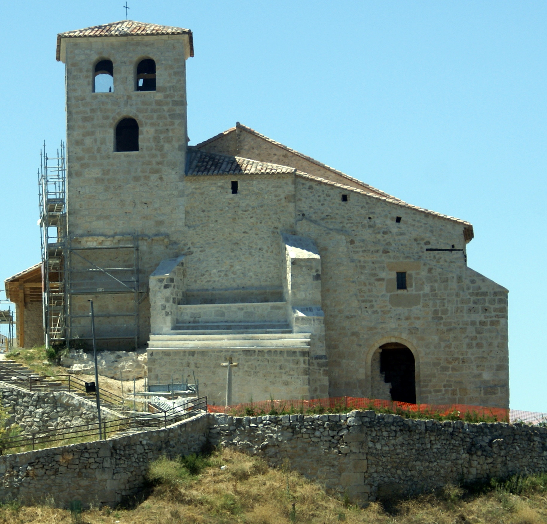 Church of Saint Bartholomew in Fompedraza, Valladolid, Spain.